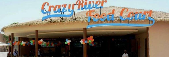 A restro in AppuGhar near crazy river.